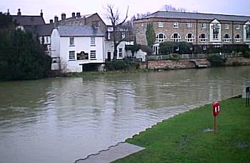 The River Great Ouse in St Neots, January 2000 Photo taken by Chris Jefferies on January 3rd, 2000. The river was full but had not burst its banks, the water was fast-flowing and brown as it was carrying a heavy load of sediment from further upstream.